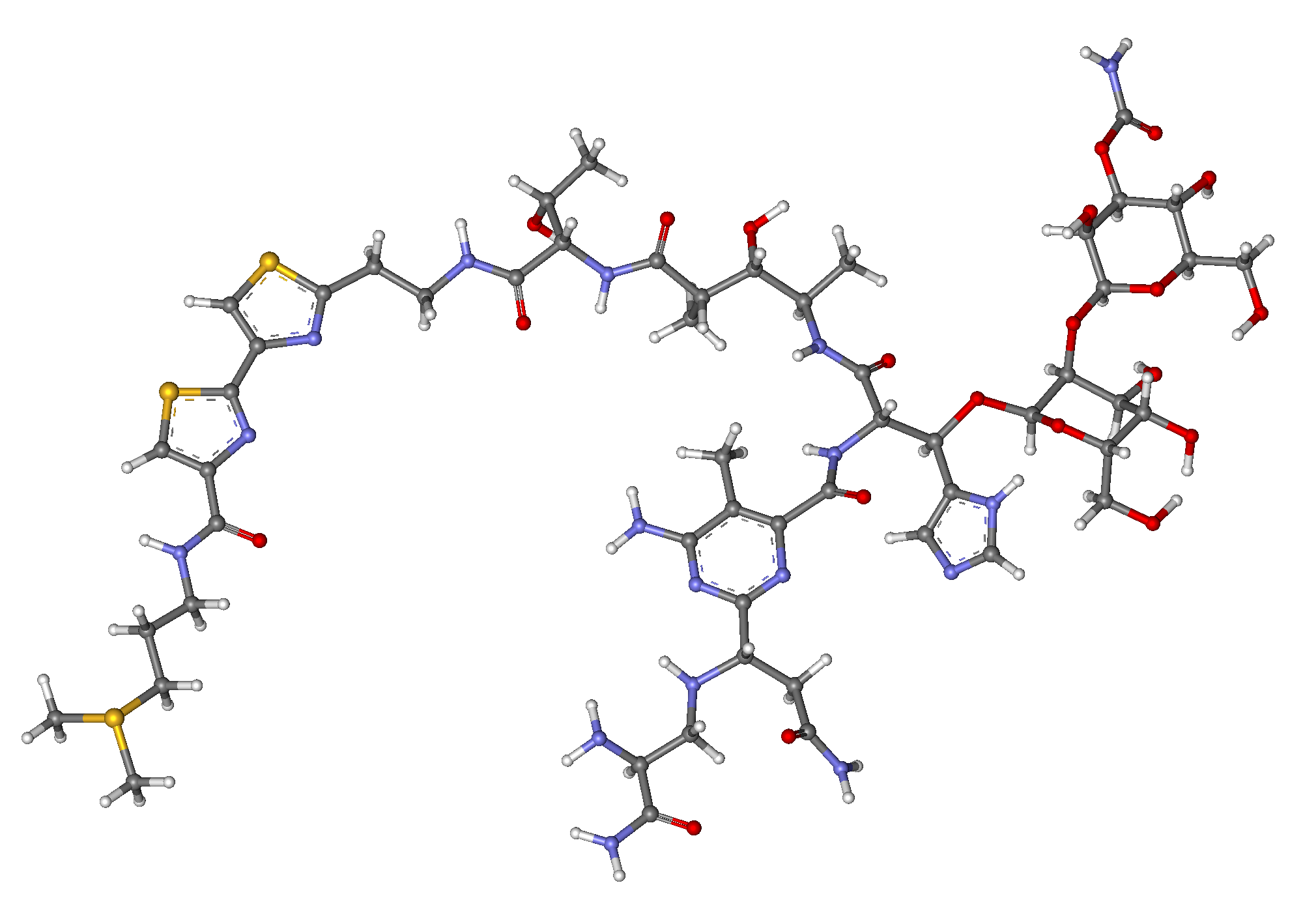 Ball-and-stick model of bleomycin molecule. The structure is taken from ChemSpider. ID 401687